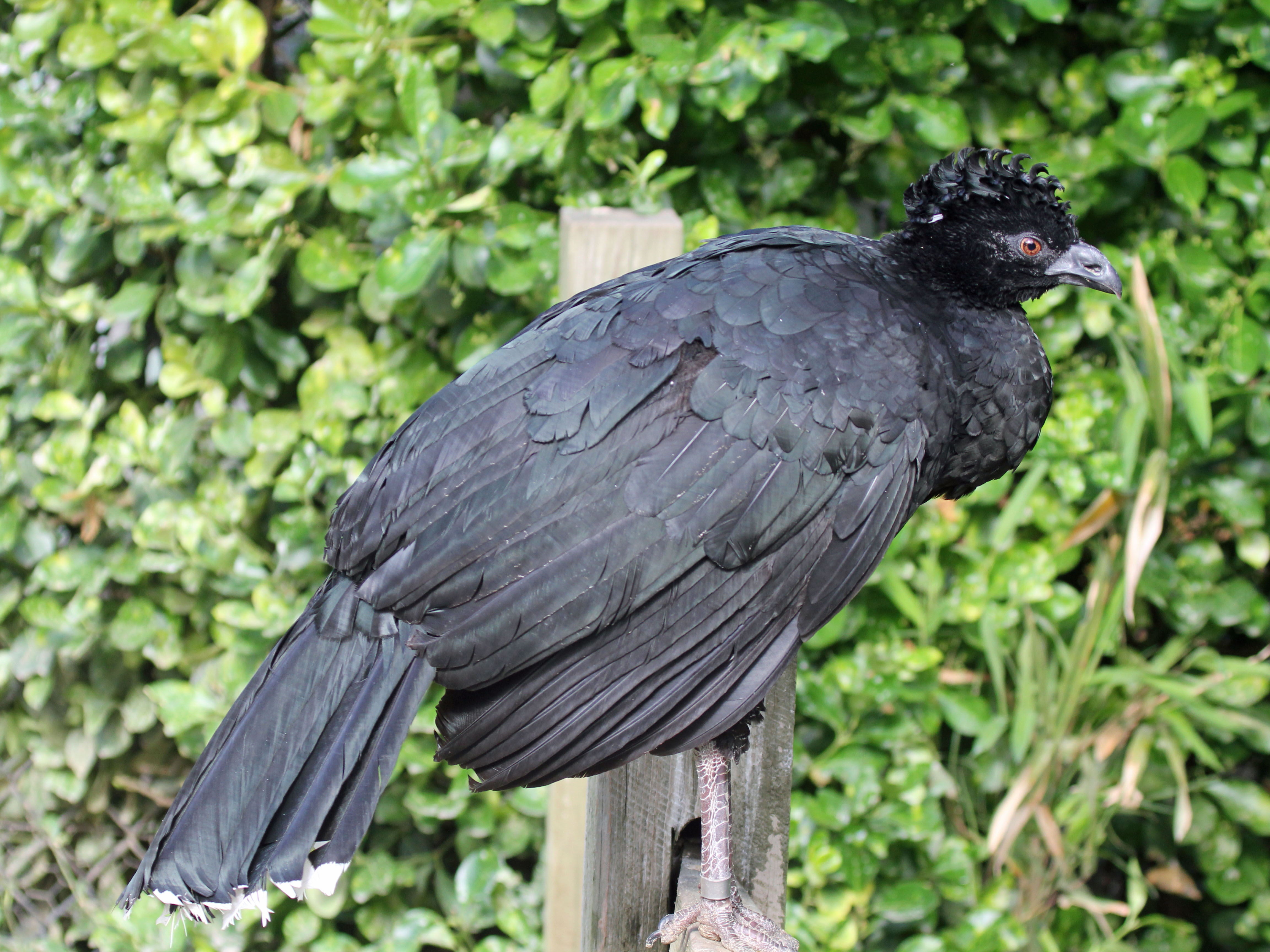 Female Yellow-knobbed Curassow (Crax daubentoni) - Sylvan Heights Waterfowl Park, Scotland Neck, North Carolina